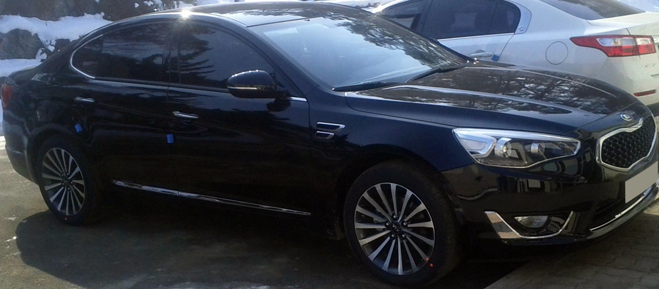 Kia The New K7